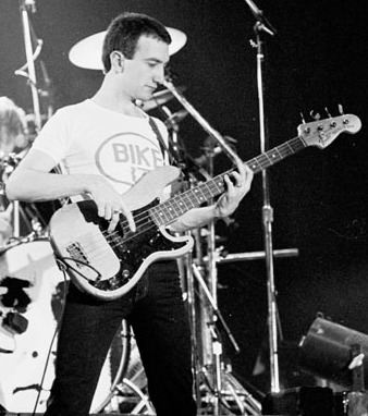 John Deacon, bass guitarist with the rock band, Queen: RDS Dublin 22 November 1979 Photo: Photographer: Eddie Mallin